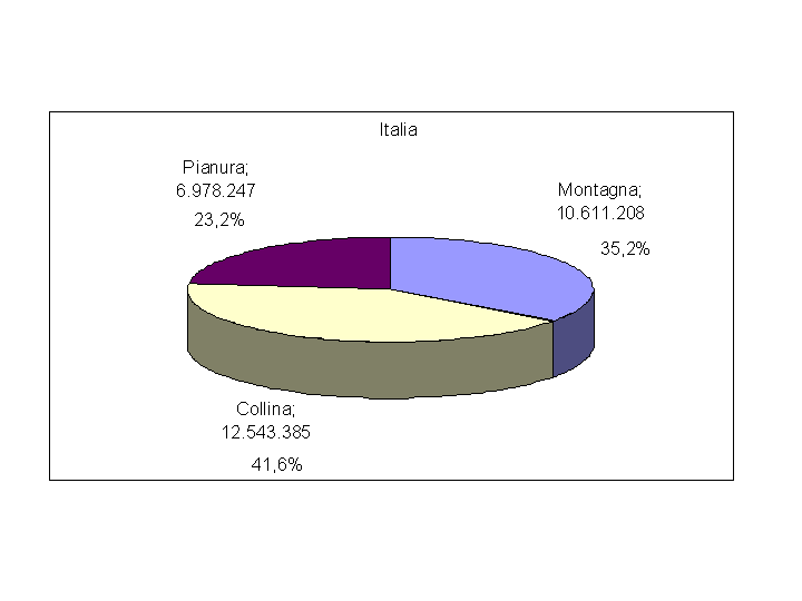 Statisticts of phisical area of Italia